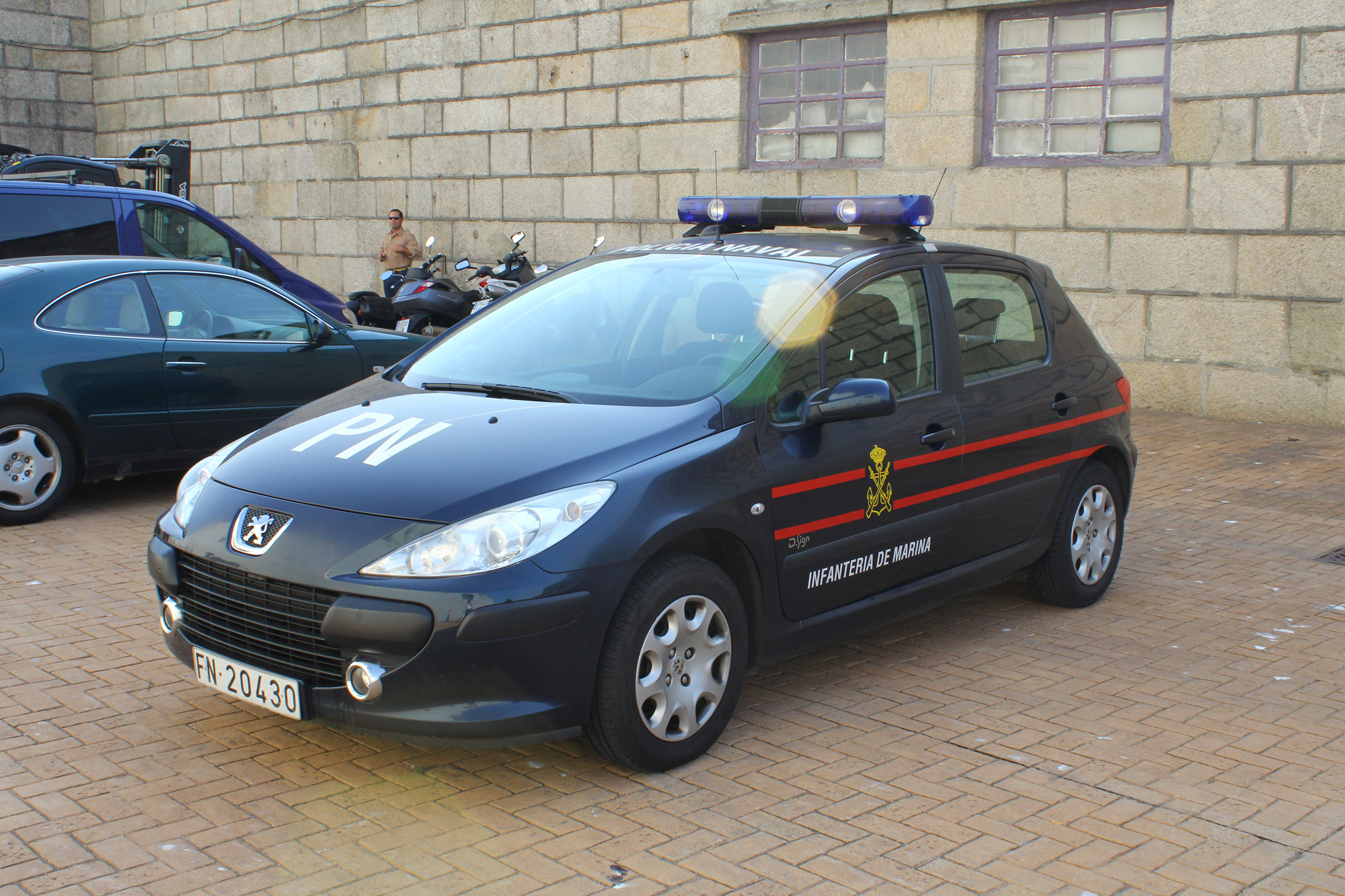 Peugeot 307 de la Policía Naval de la Armada Española, en el puerto de Vigo. El coche lleva el emblema de la Infantería de Marina, cuerpo al que pertenecen los miembros de la Policía Naval. Naval Police Peugeot 307 of the Naval Police of the Spanish Navy in the port of Vigo. The car bearing the emblem of the Marine Corps, corp of the members of the Naval Police.